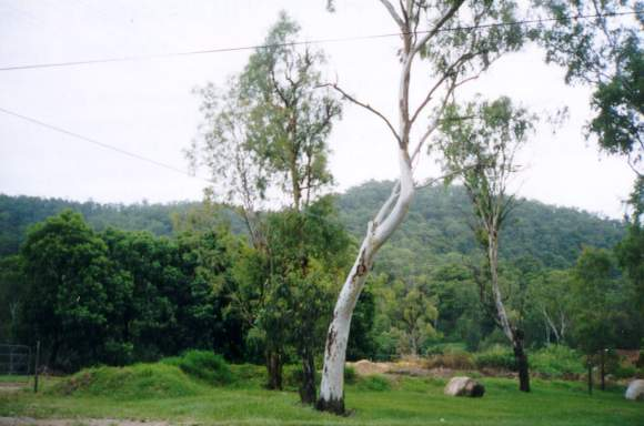 The Gap (Brisbane suburb), Queensland, Australia showing Eucalyptus trees and Enoggera Hill ( this photograph was taken by Figaro )